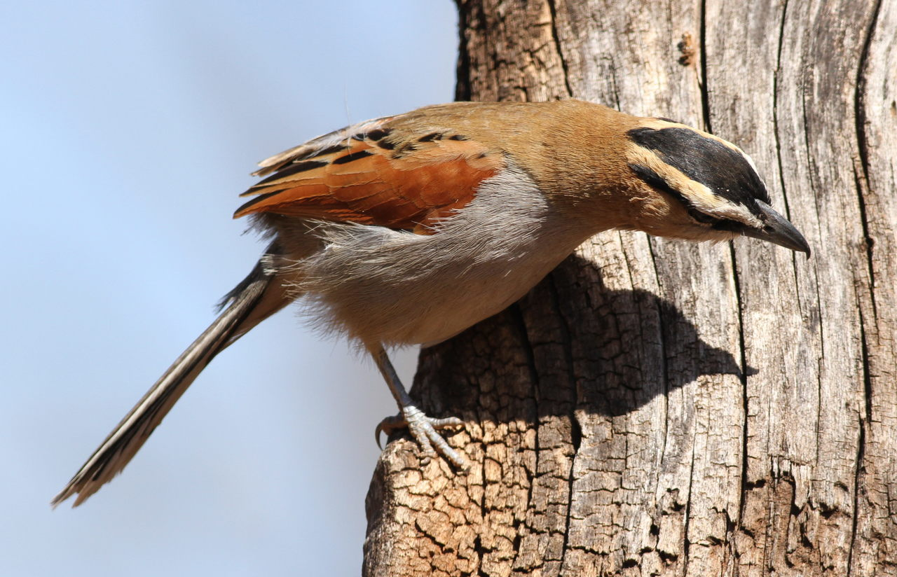 Black-crowned Tchagra, Tchagra senegala at Rietvlei Nature Reserve, Gauteng, South Africa